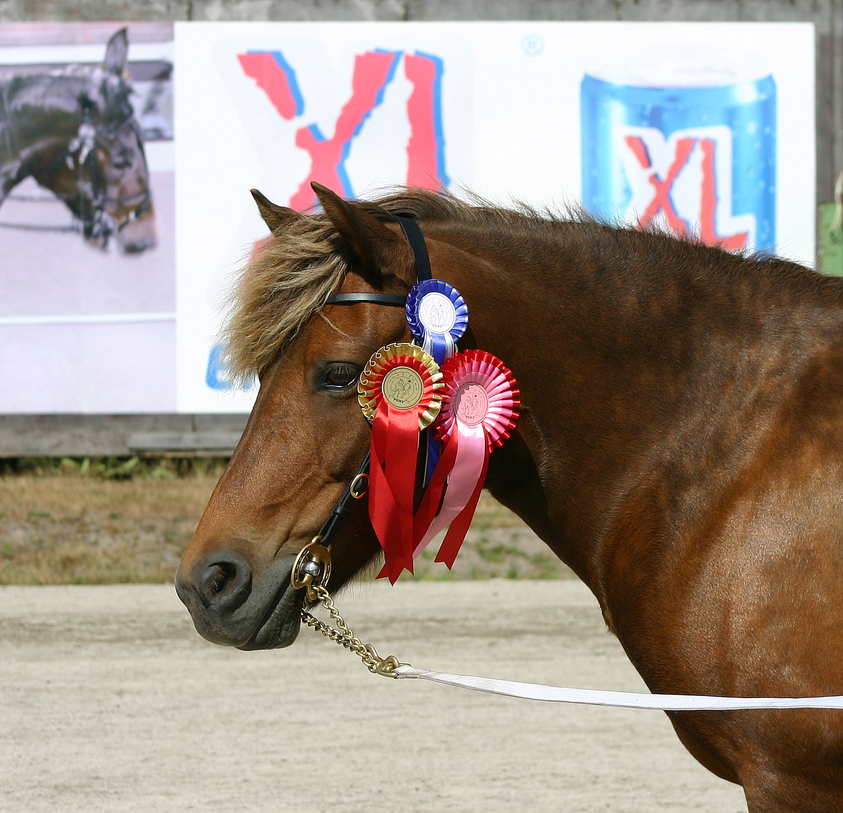 A 15-year-old silver bay Finnhorse mare with rosettes: blue and white denotes she attained Ist prize for her quality; the red and gold one denotes that she won her class; the pink and red one denotes that she's the Best Finnhorse Mare in the show; after this photo was taken she went on to be selected as Best Finnhorse III.